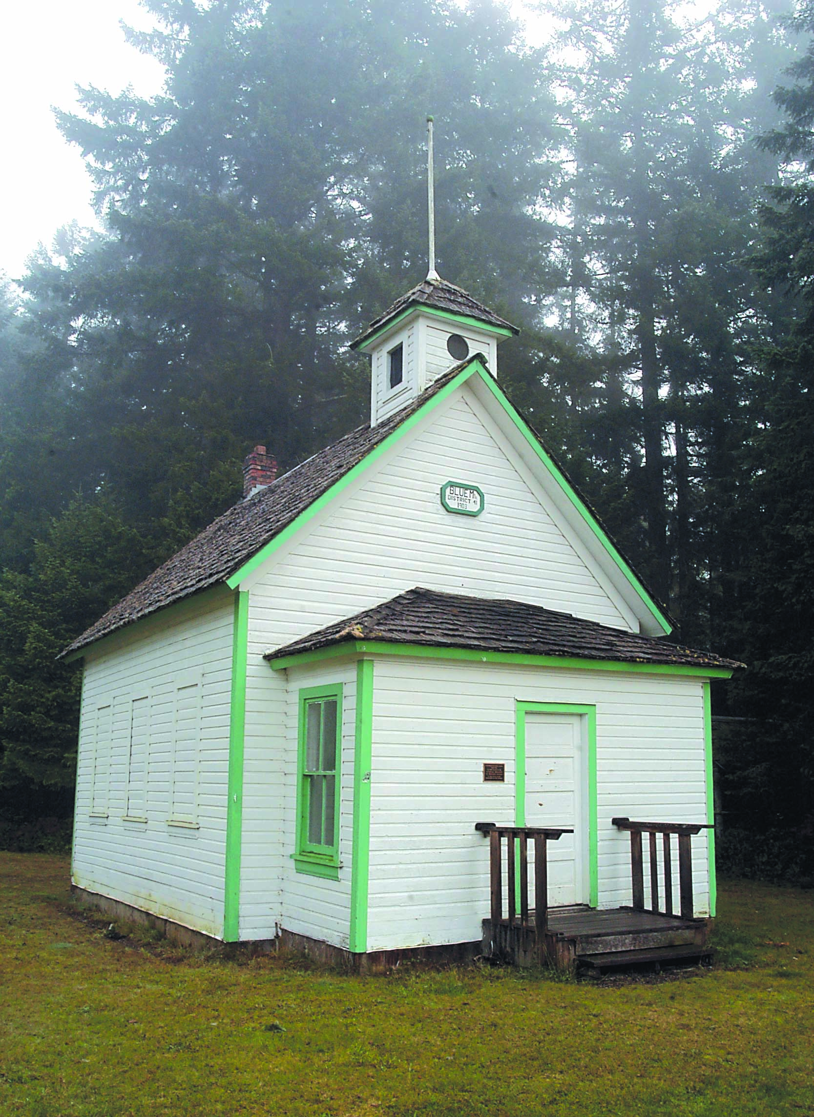 Historic Blue Mountain School southeast of Port Angeles, Wash., USA